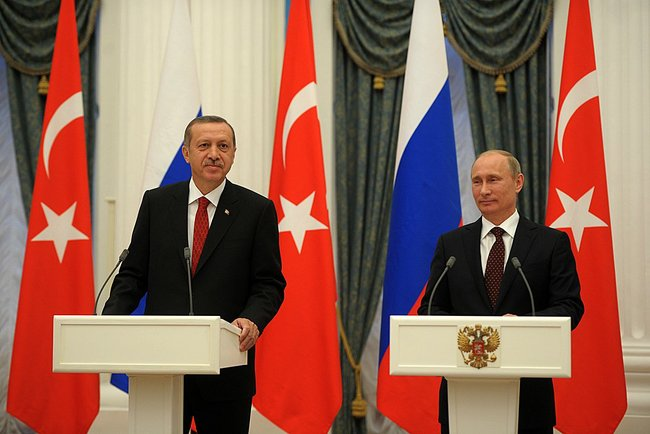 Meeting between Prime Minister of Turkey Recep Tayyip Erdogan and President of Russia Vladimir Putin in Moscow.